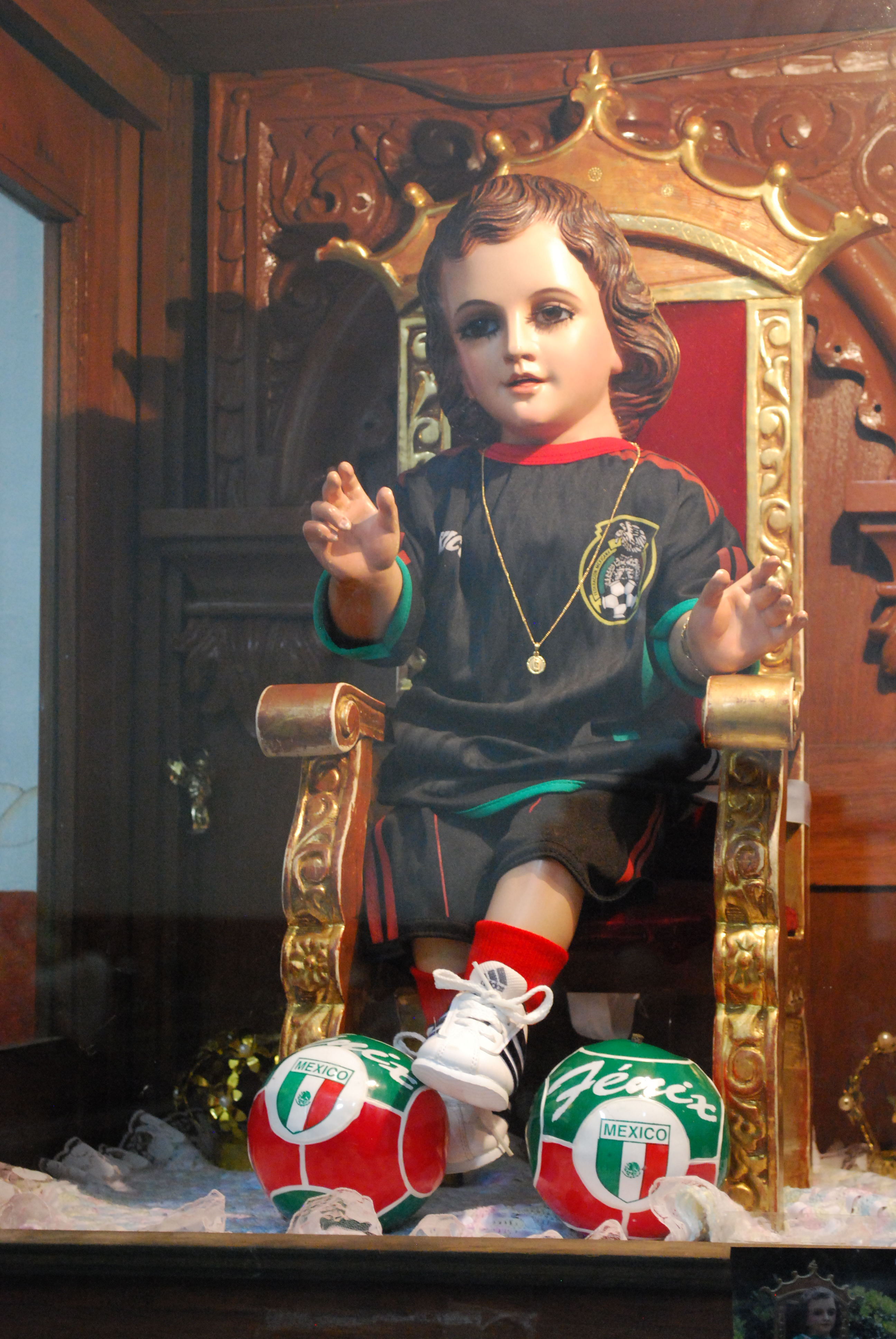 Niño de los Milagros in the uniform of the Mexican National Soccer Team World Cup 2010 at the Parish of Tacuba, Mexico City